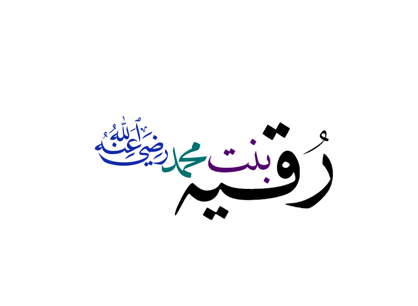 رقیہ بنت محمدؓ